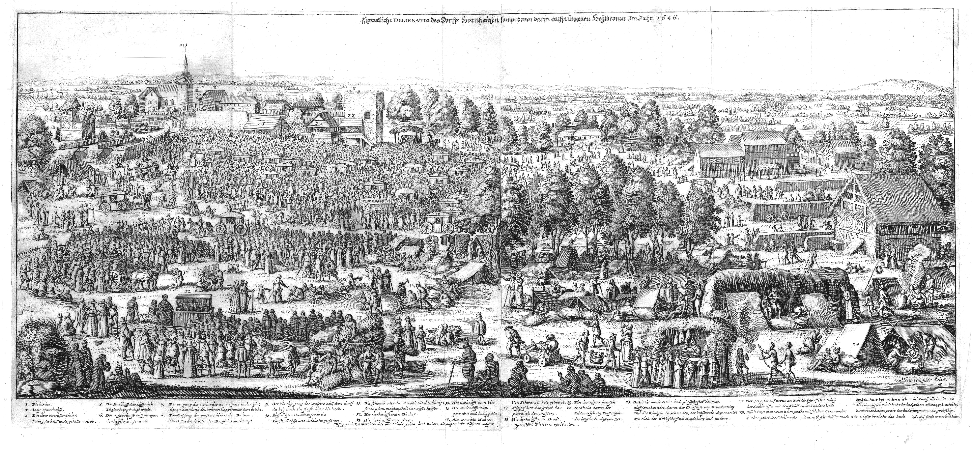 view of Hornhausen "Eigentliche Delineatio des Dorfes Hornhausen sampt denen darin entsprungenen Heylbronen im Jahr 1646." taken from „Theatrum Europaeum“ Book 5